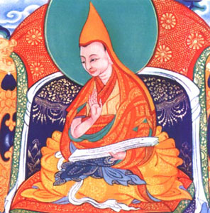 Khedrup Gelek Pelzang, better known as Khedrup Je, the first Panchen Lama